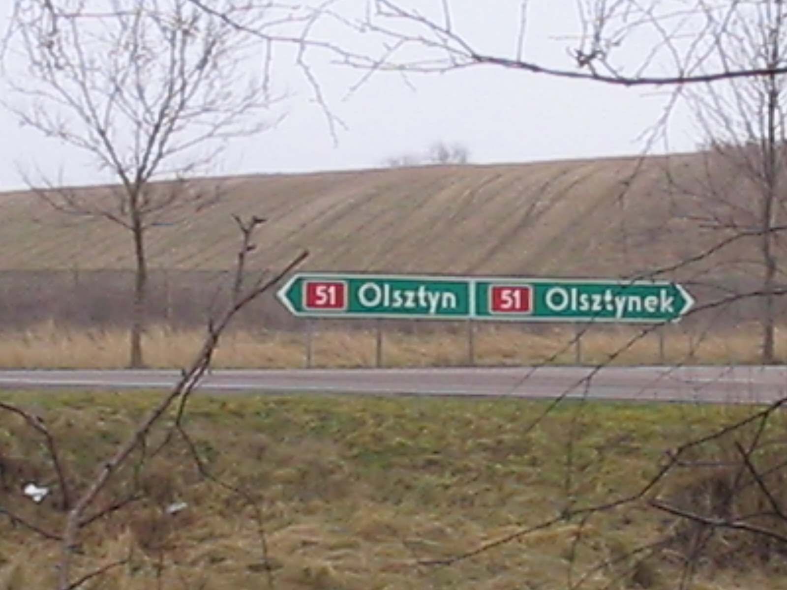 Landscape Olsztyn, Poland